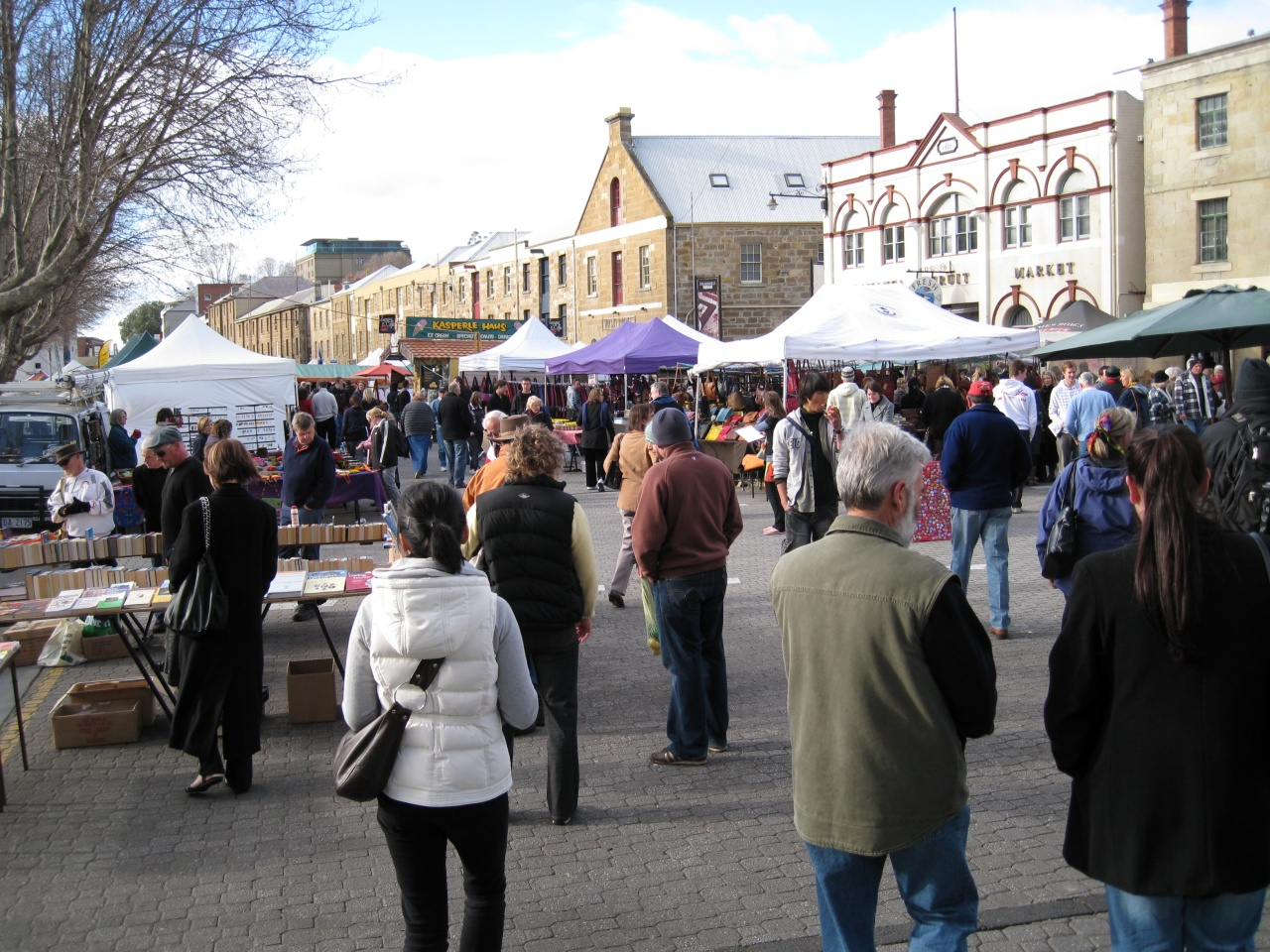 The Salamanca Market in Hobart, Tasmania, Australia.